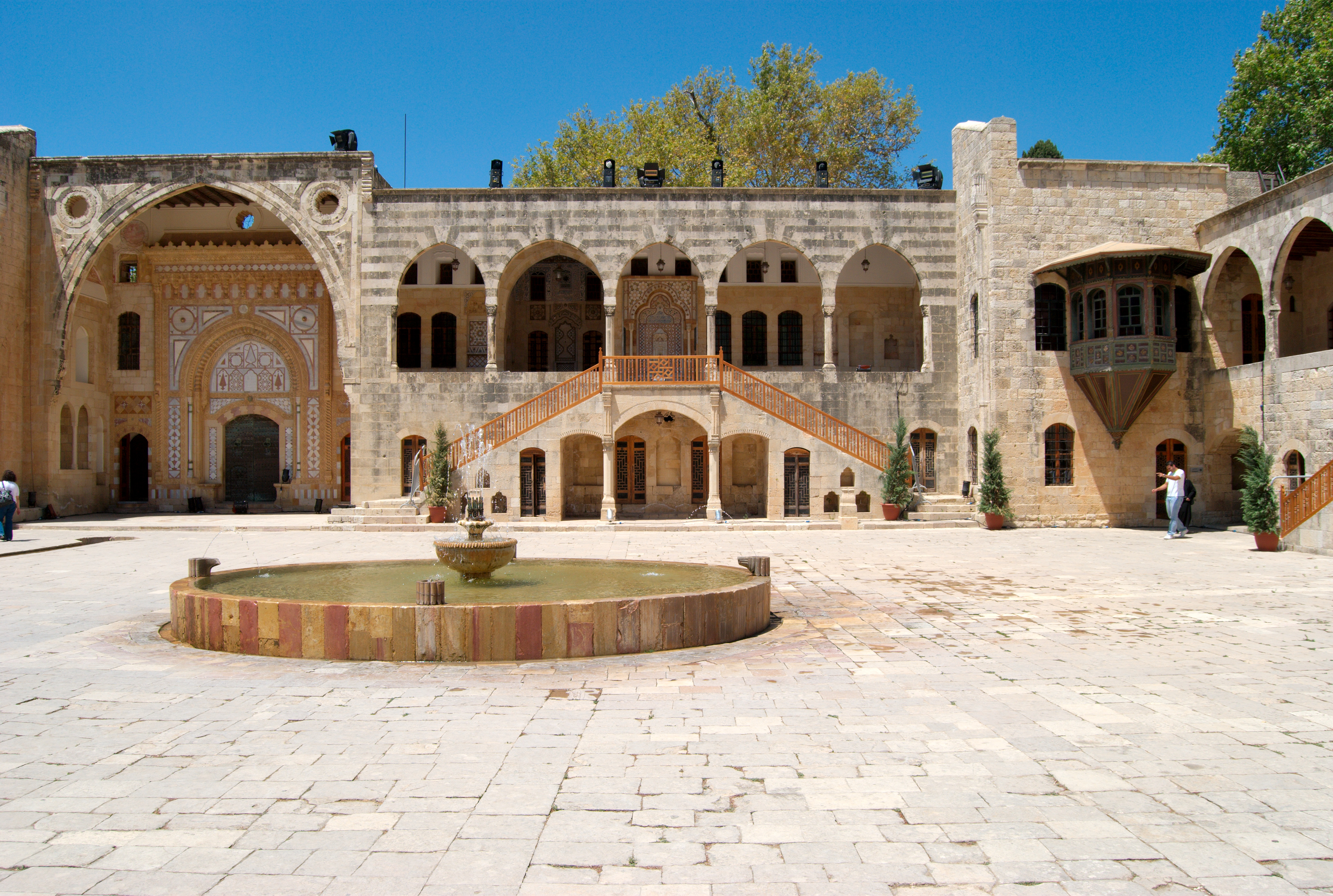 Courtyward at the Beiteddine Palace in Lebanon.